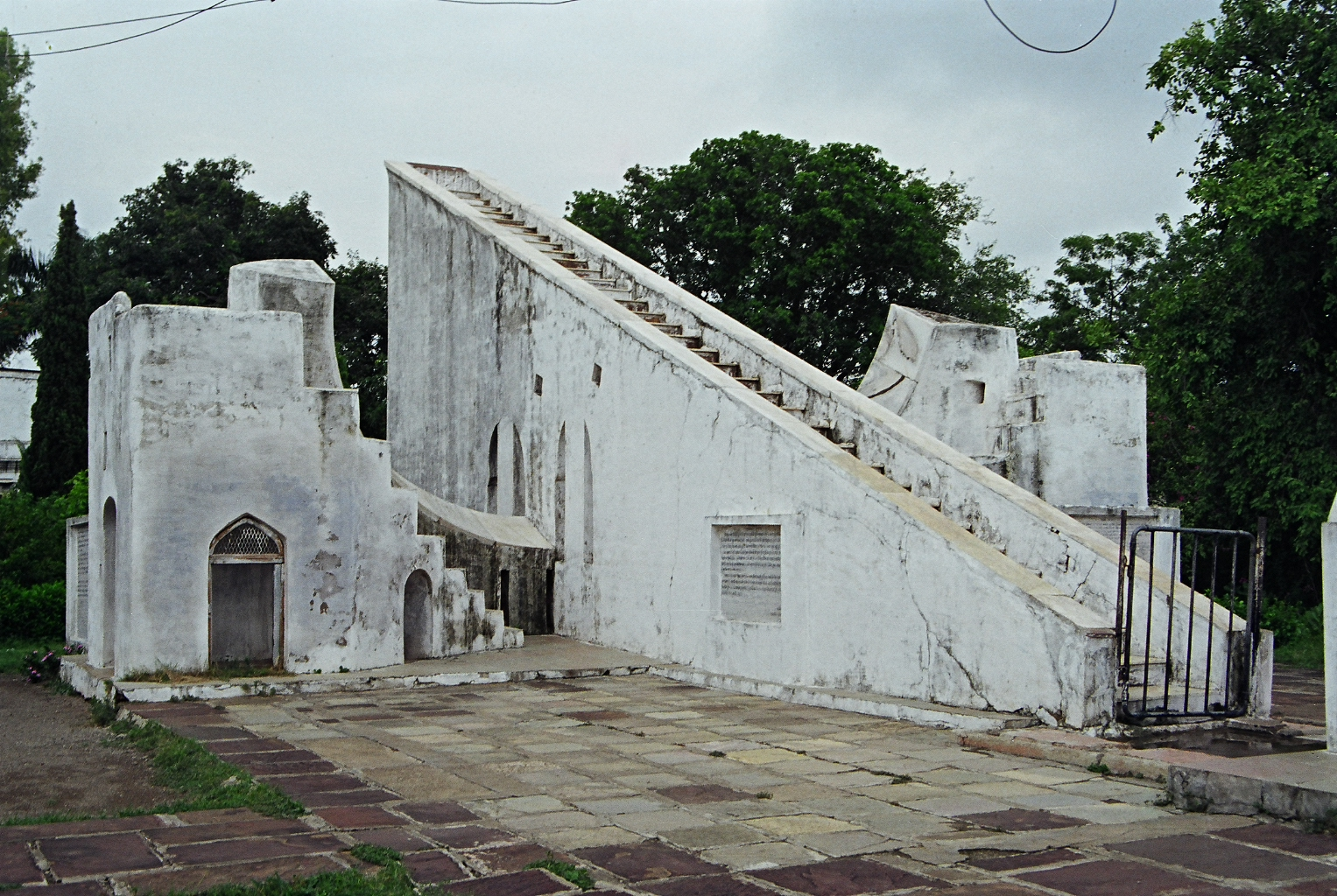 Sun Dial at the Ved Shala (Observatory)at Ujjain. Author: User:Clt13